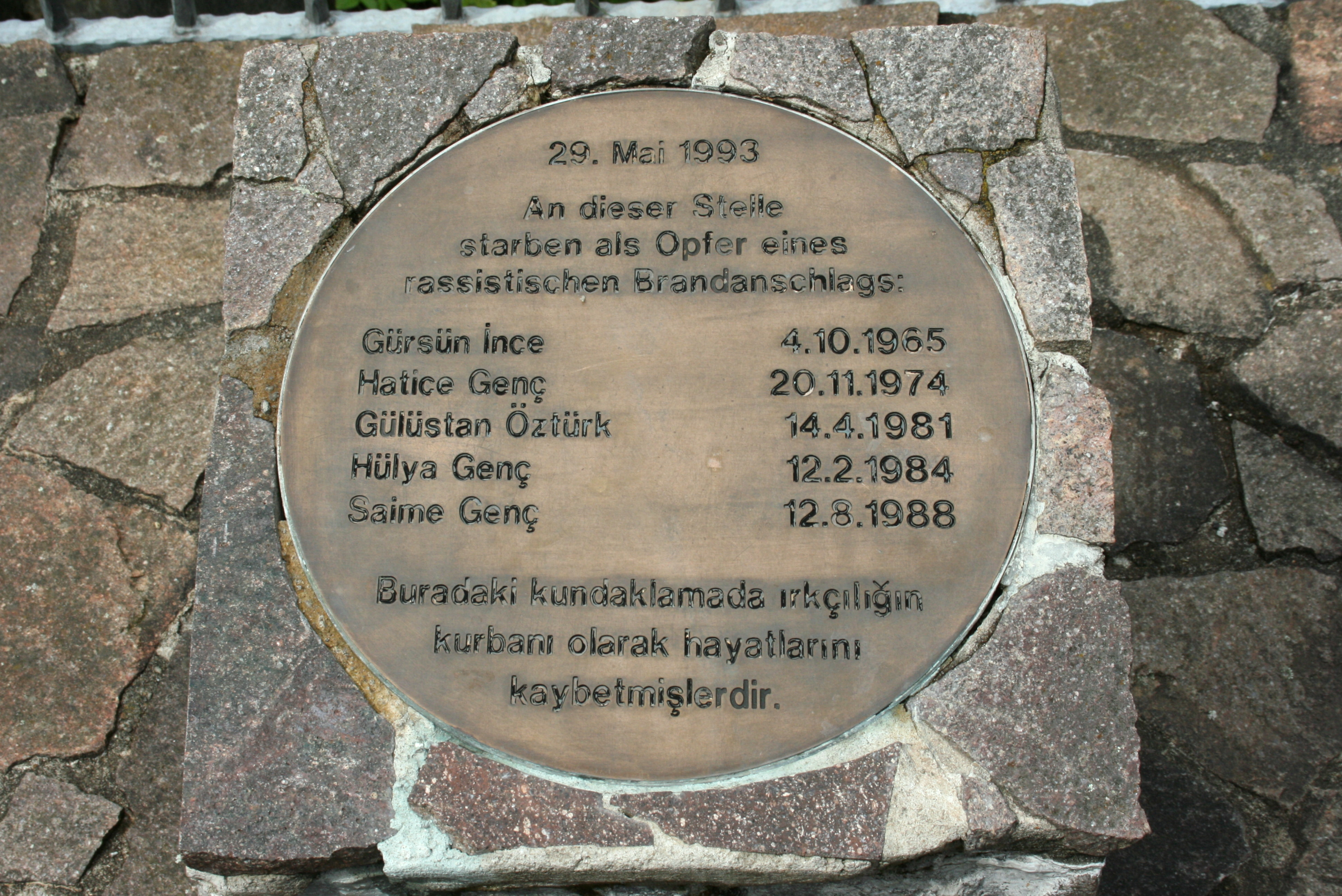 Location of the Solingen arson attack of 1993